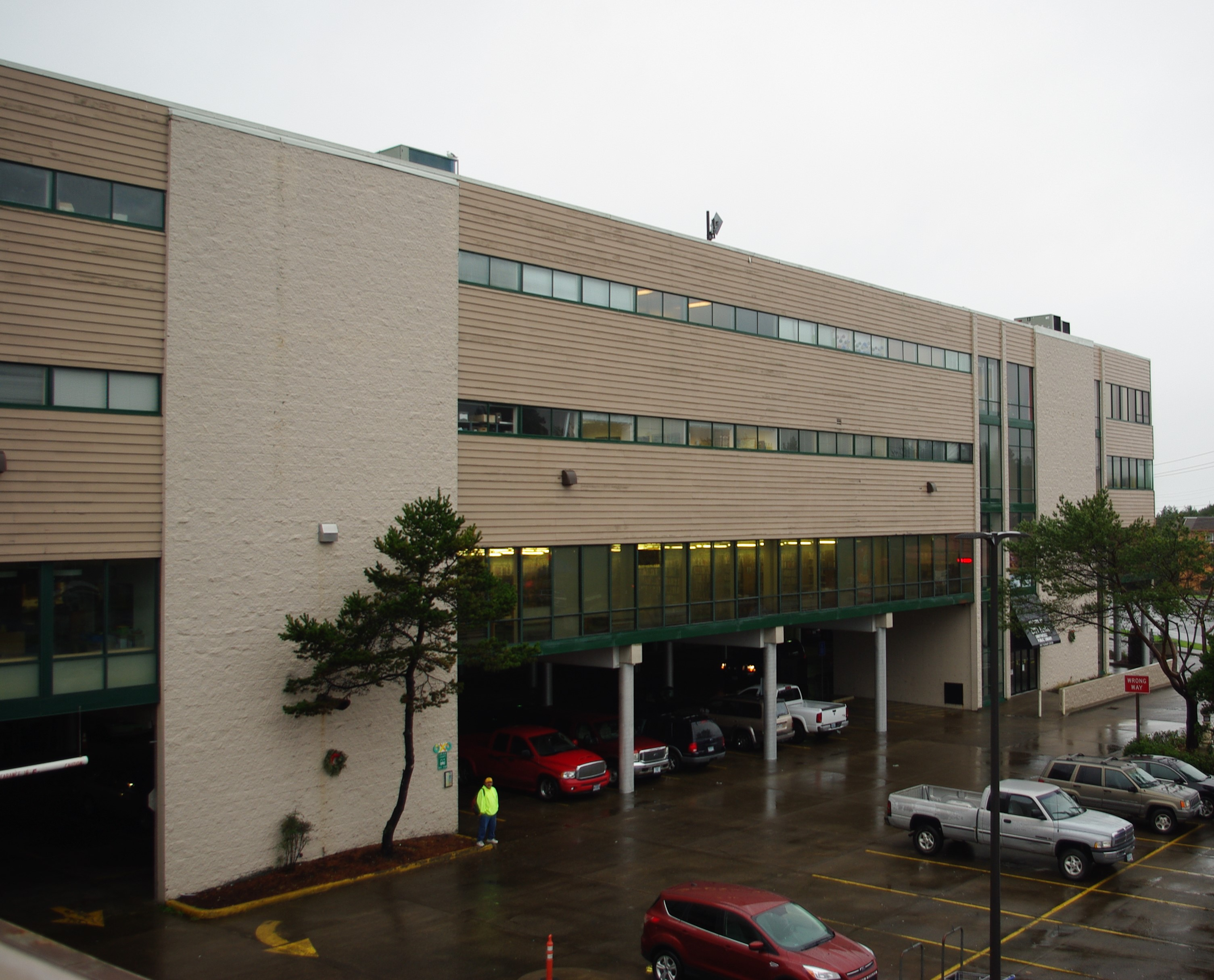 City Hall & Lincoln City Career Technical High School in Lincoln City, Oregon